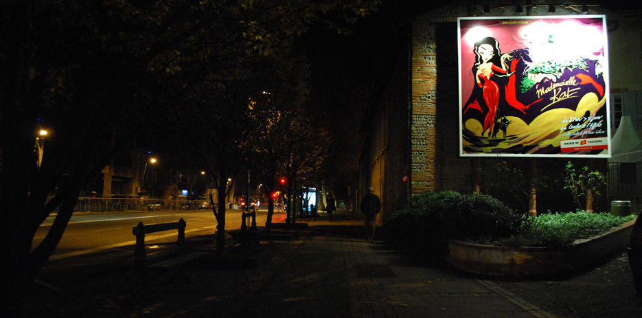 Vampira , from the exhibition at Toulouse. Mademoiselle Kat 2014